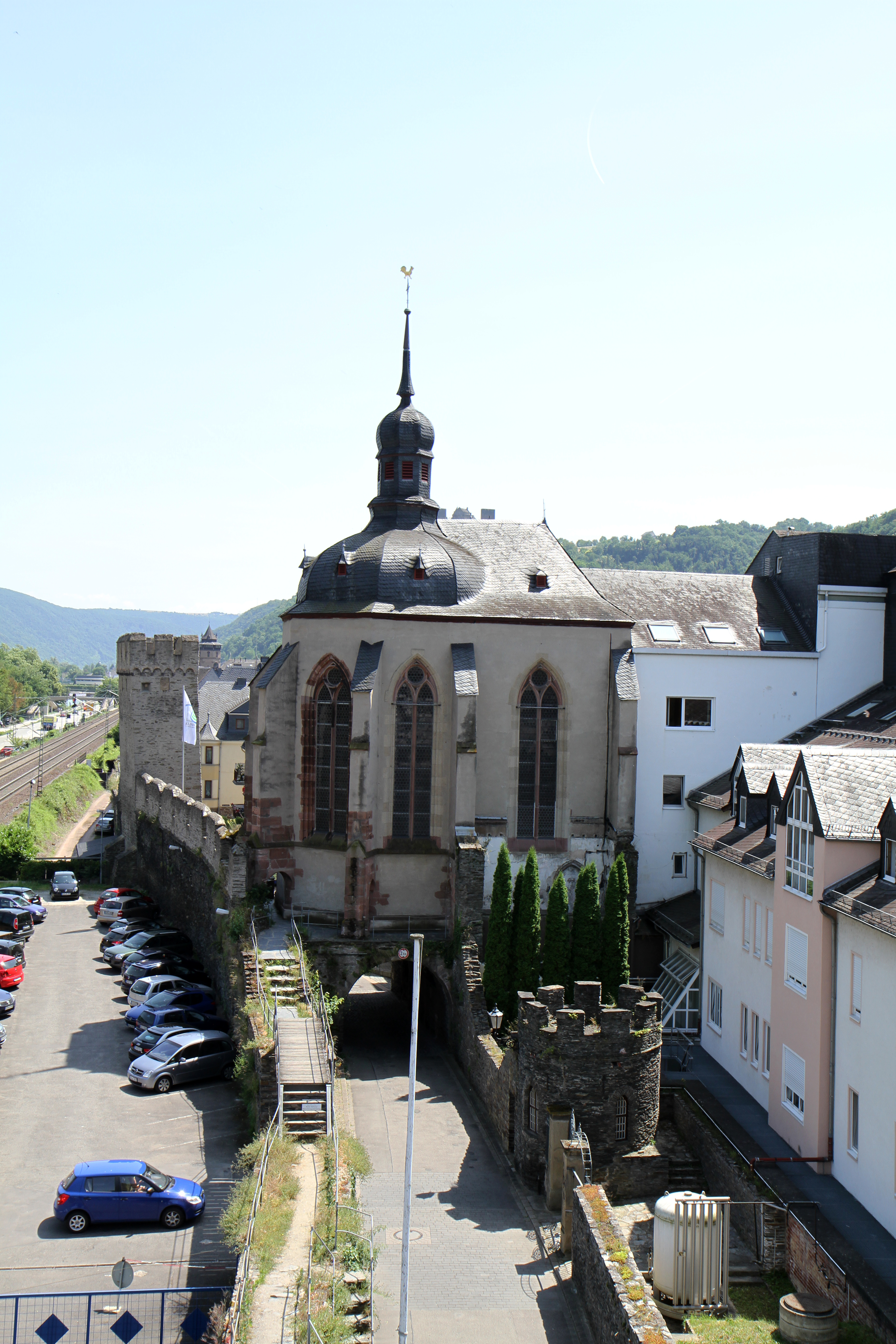 Old hospital chapel (1305) of Oberwesel, Germany